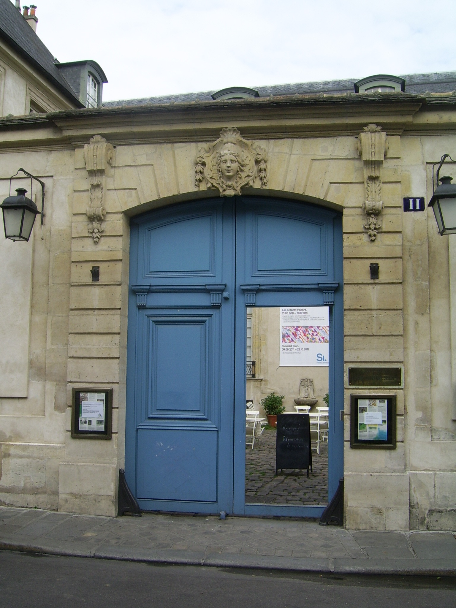 Entrance to Hotel de Marle in Paris, France, home to the Swedish institute Centre Culturel Suédois.